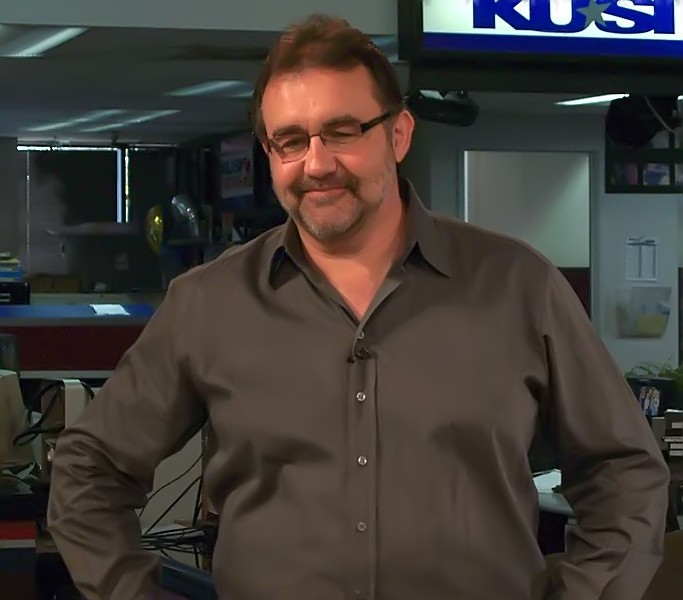 I personally took this photo of Academy Award nominated, Disney producer, Don Hahn. Please acknowledge "Phil Konstantin" as the creator of this photograph.